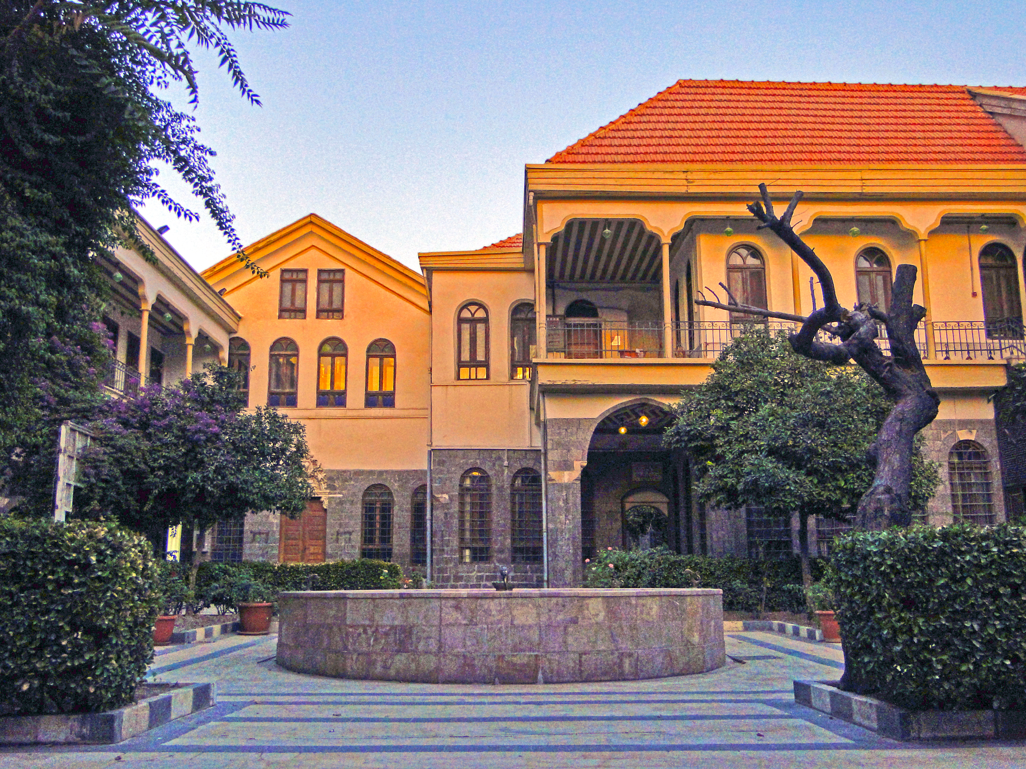 Archaeological teacher in old Damascus, Syria, and is one of the most beautiful old Damascus houses